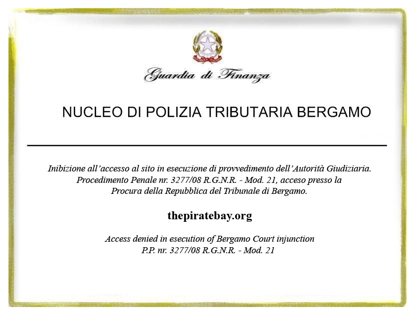 Screenshot of The Pirate Bay website, when access was forbidden from Italy by Financial Guard.